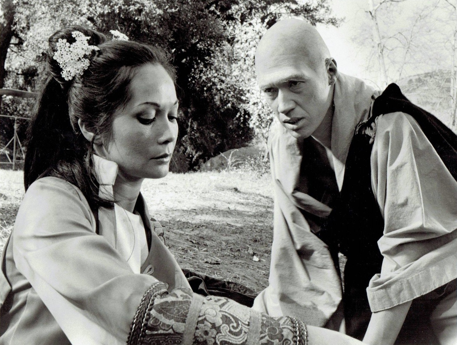 Publicity photo from 'Kung Fu'. Pictured is David Carradine as Caine and Nancy Kwan Mayli Ho. Press description: Caine (David Carradine) recalls his deep feelings for Mayli Ho (guest star Nancy Kwan), a concubine of the Chinese Imperial Court, in "The Cenotaph," a two-part episode on the ABC Television Network's "Kung Fu," having a repeat airing on THURSDAY, AUGUST 8 and THURSDAY, AUGUST 15 (9:00-10:00 p.m., EDT). (OAD: Thursday, April 4 and Thursday, April 11, 1974)